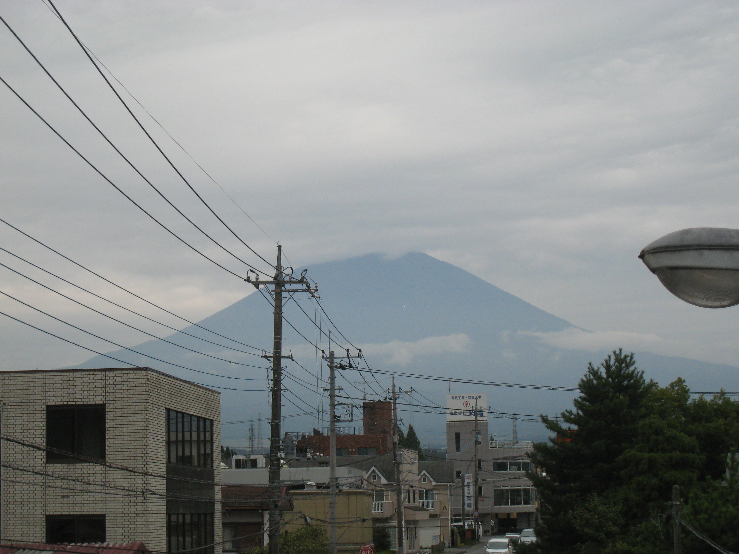 View of Mount Fuji from Gotemba City